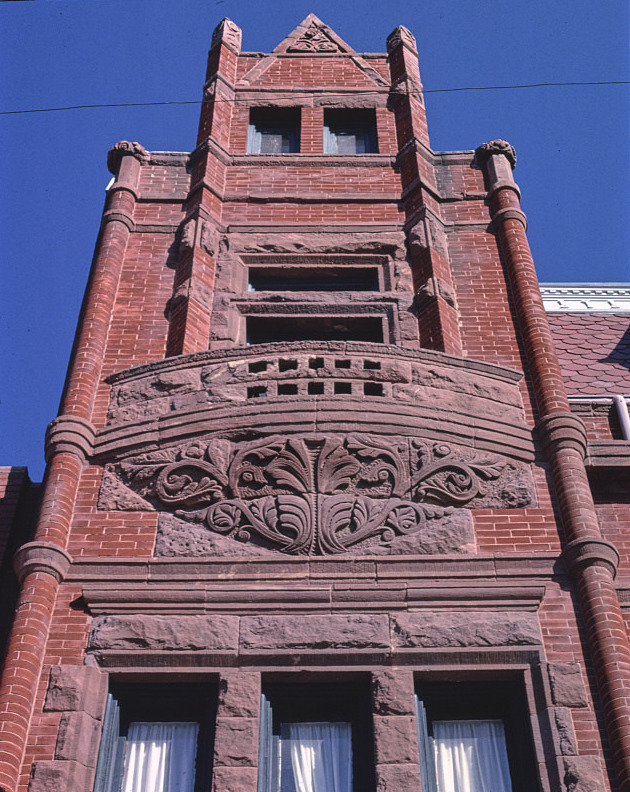 Margolies, John,, photographer. Bank (1889), Willa Cather History Center, up detail, Webster Street, Red Cloud, Nebraska 1988. 1 photograph : color transparency ; 35 mm (slide format). Notes: Title, date and keywords based on information provided by the photographer. Margolies categories: Banks; Main Street. Please use digital image: original slide is kept in cold storage for preservation. Credit line: John Margolies Roadside America photograph archive (1972-2008), Library of Congress, Prints and Photographs Division. Purchase; John Margolies 2015 (DLC/PP-2015:142). Forms part of: John Margolies Roadside America photograph archive (1972-2008). Subjects: Banks--1980-1990. Galleries & museums--1980-1990. United States--Nebraska--Red Cloud. Format: Slides--1980-1990.--Color For more information, see "John Margolies Roadside America Photograph Archive - Rights and Restrictions Information" Repository: Library of Congress, Prints and Photographs Division, Washington, D.C. 20540 USA, Part Of: Margolies, John John Margolies Roadside America photograph archive (DLC) 2010650110 General information about the John Margolies Roadside America photograph archive is available at Higher resolution image is available (Persistent URL): Call Number: LC-MA05- 4118